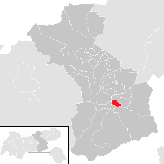 District Schwaz